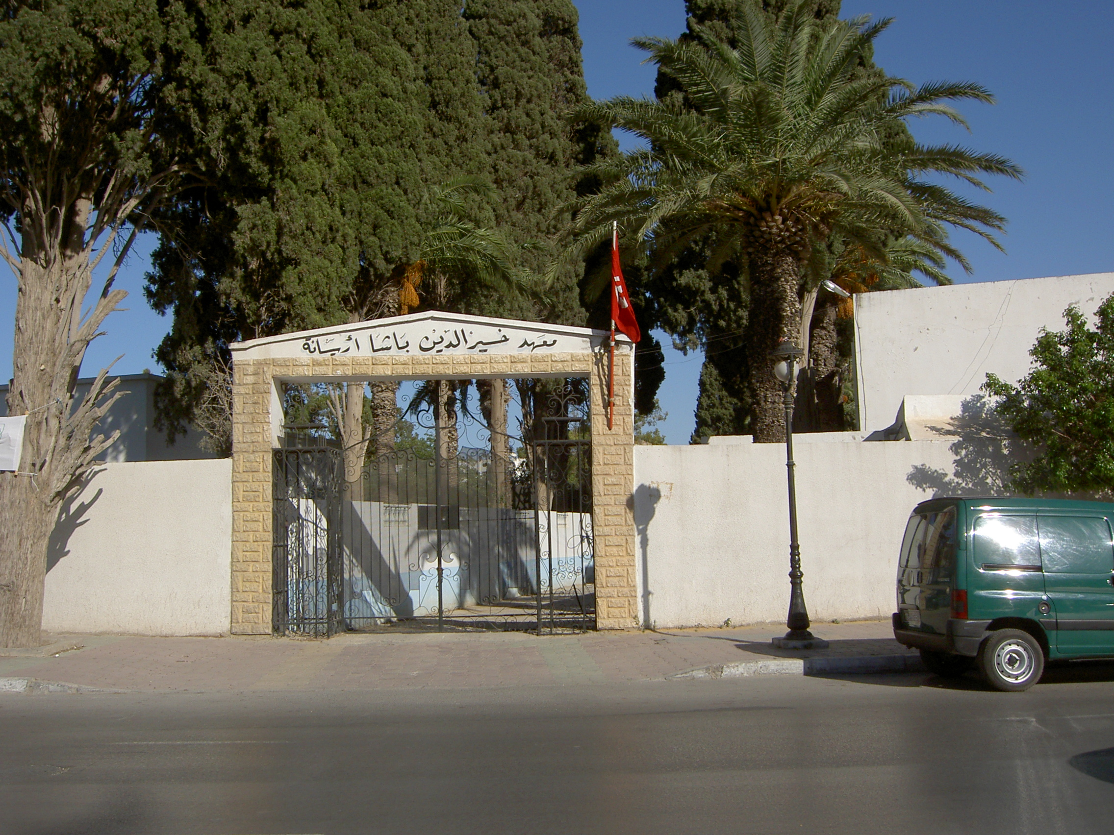 Lycée Kheireddine Pacha, Ariana, Tunisia.